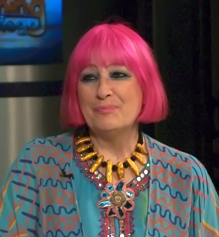 Zandra Rhodes by Phil Konstantin